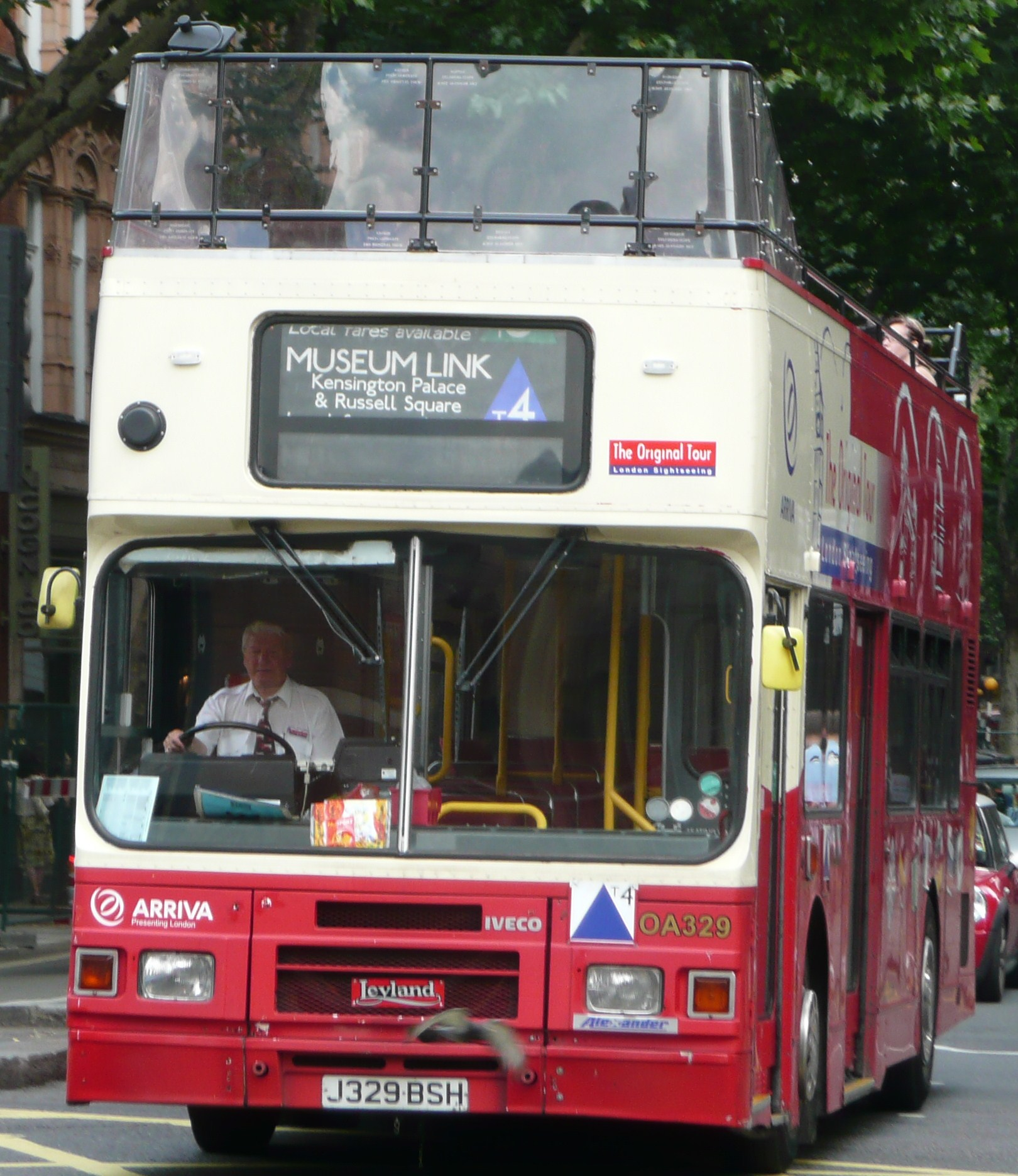 The Original Tour's bus OA329 (reg. J329 BSH), a 1992 Leyland Olympian double-decker with Alexander RH bodywork, pictured heading west on Shaftesbury Avenue approaching the crossroads with Charing Cross Road, operating their local bus route T4 linking museums in east and west London: Kensington Palace - South Kensington Museums – Knightsbridge - Piccadilly - British Museum - Russell Square. It was new to London Buses Ltd as their dual-door fleet no. L329. It ended up in Arriva ownership via its 1994 privatisation into the Leaside Buses fleet. It passed to Arriva's Original Tour operation in August 2004. They converted it into convertible open-top configuration (but retaining the centre door), renumbering it OA329.